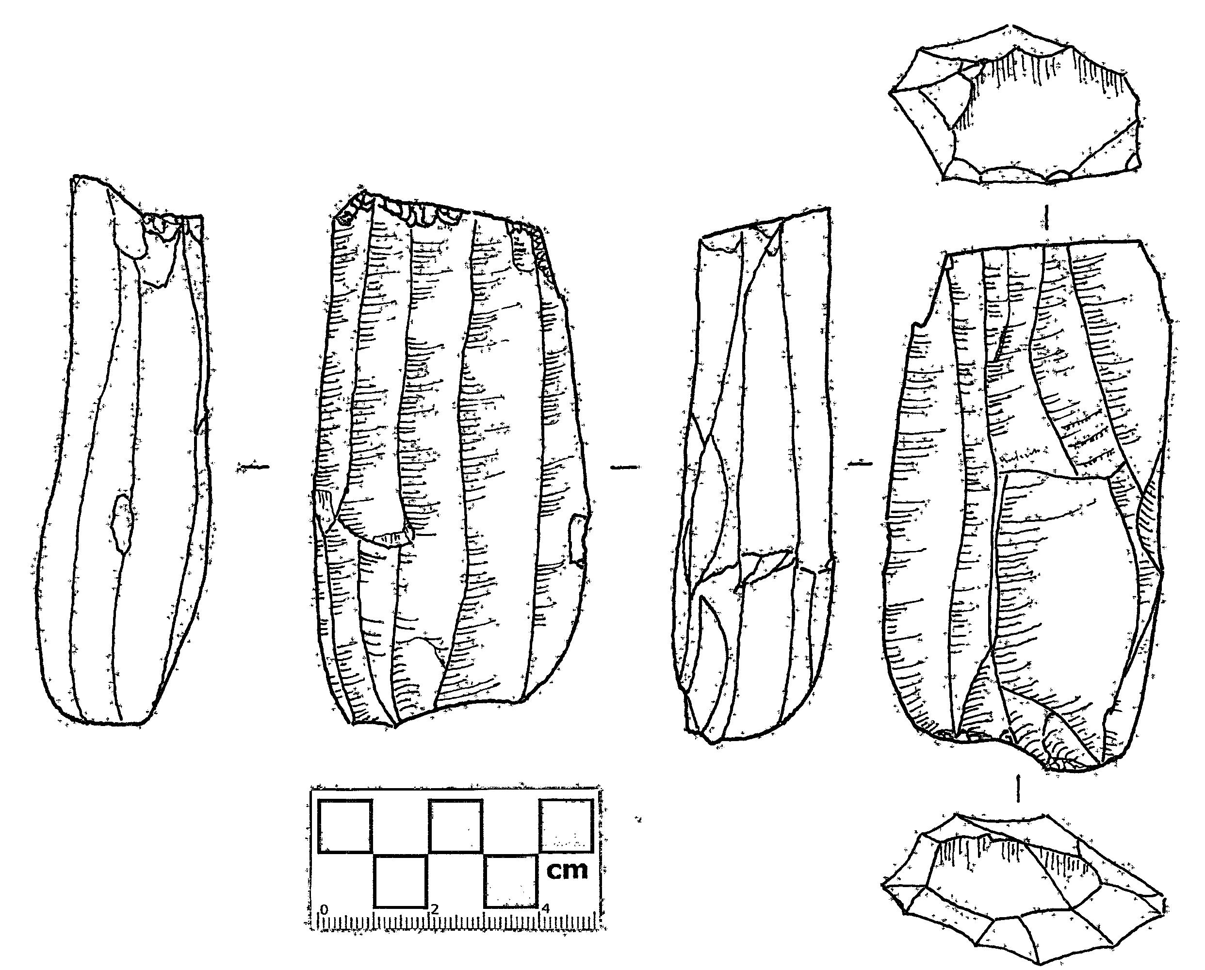 Line drawing of a cylindrical blade core. Image shows six view angles. Drawn from a specimen in the Burke Museum archaeological collection